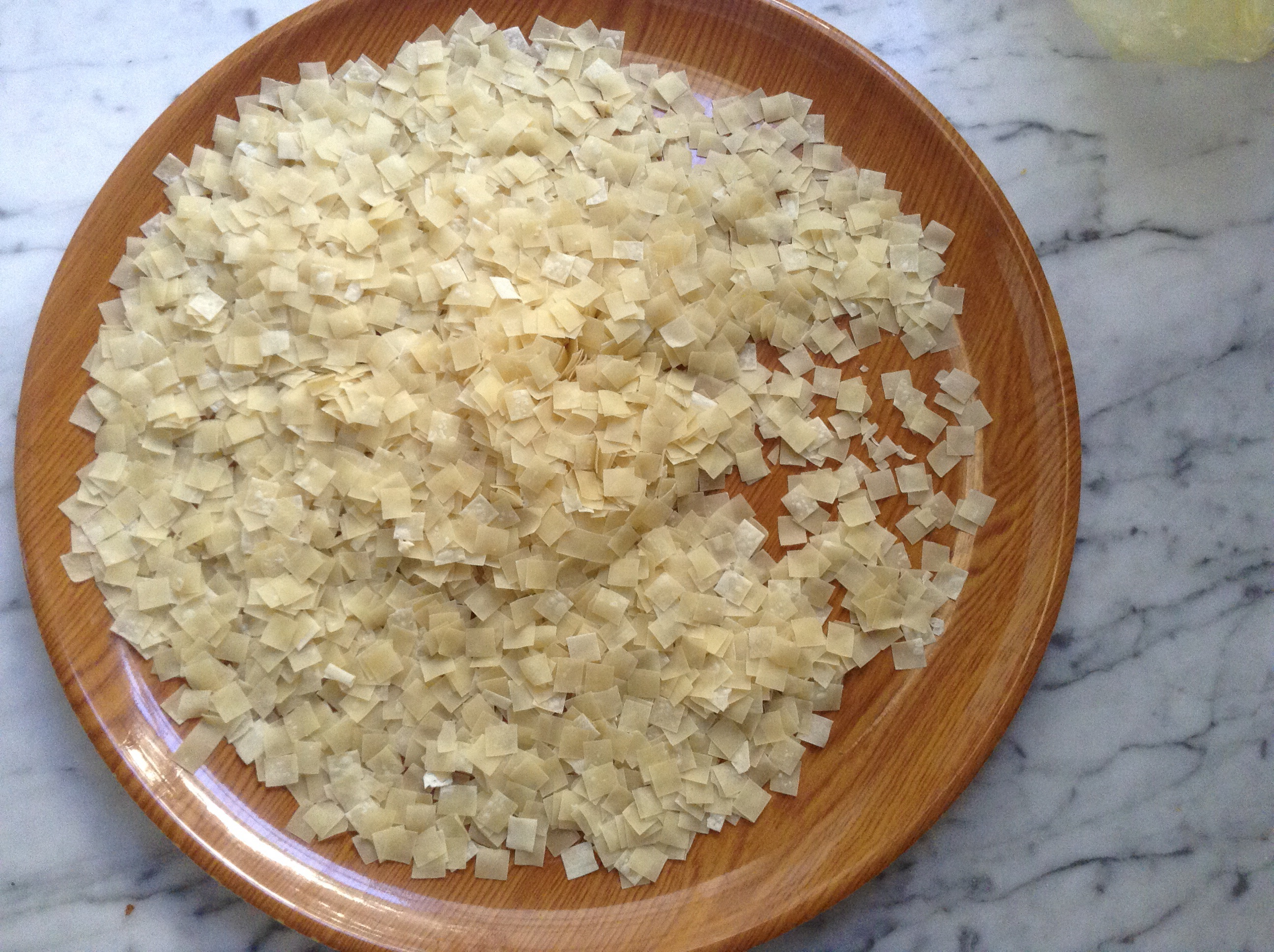 Homemade Algerian pasta made of whole wheat and eggs This is an image of food from Algeria